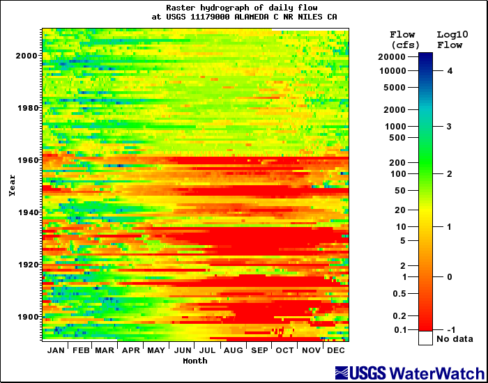 Raster hydrographs are pixel-based river discharge plots for visualizing and identifying variations and changes in large multidimensional data sets.